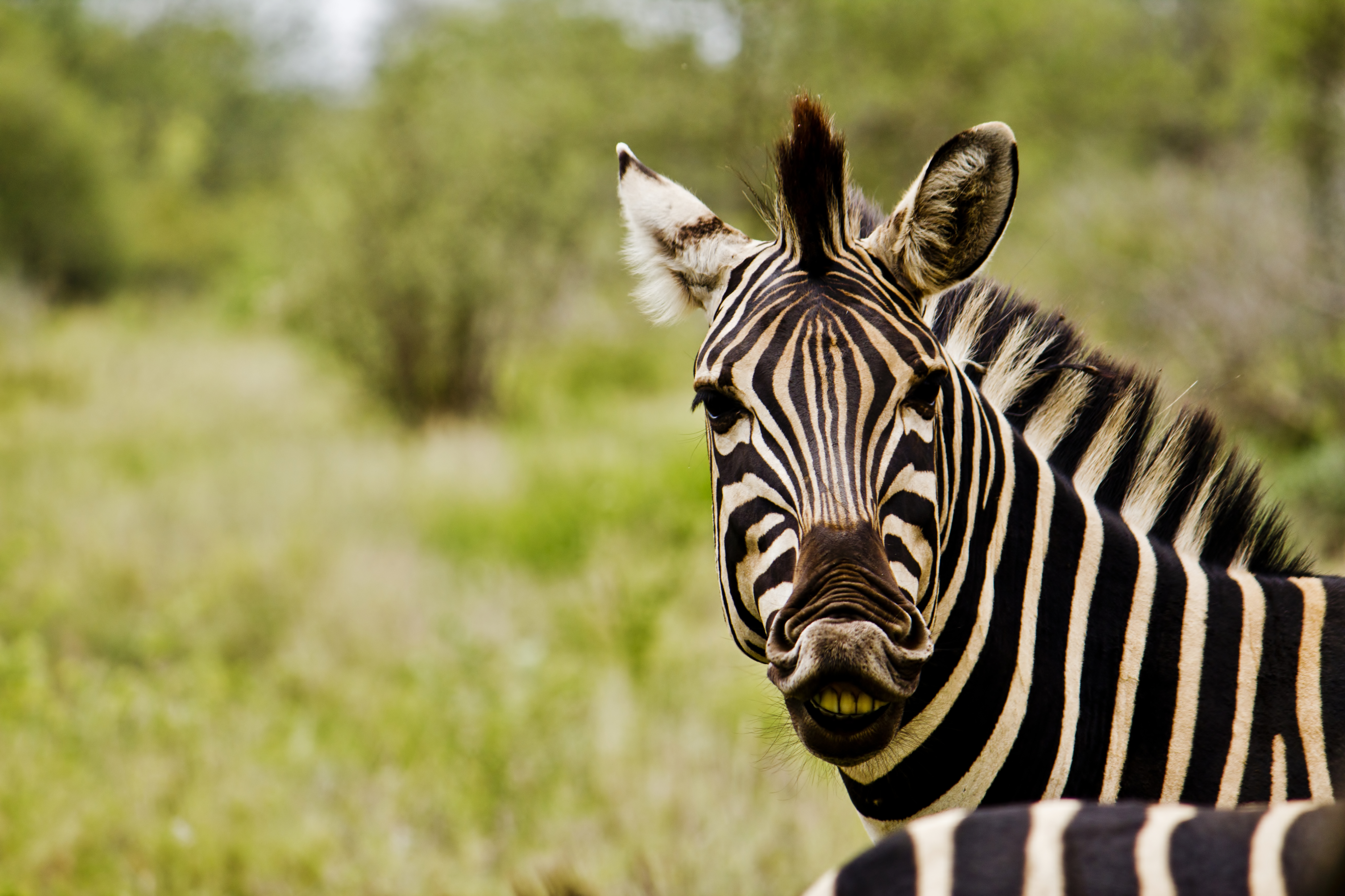 Zebra in South Africa